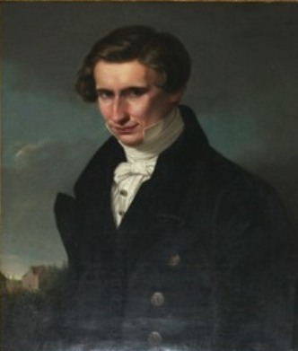 Portait of Hans Conon von der Gabelentz (1807–1874), German linguistic researcher.